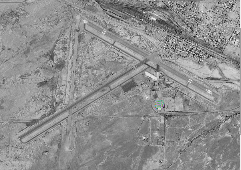 USGS digital orthophoto of Winslow-Lindbergh Regional Airport in Winslow, Navajo County, Arizona, United States